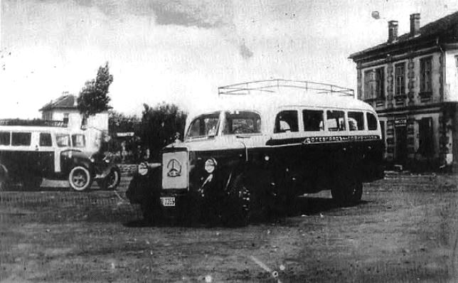 Sofia Botevgrad autobus lines, 1939